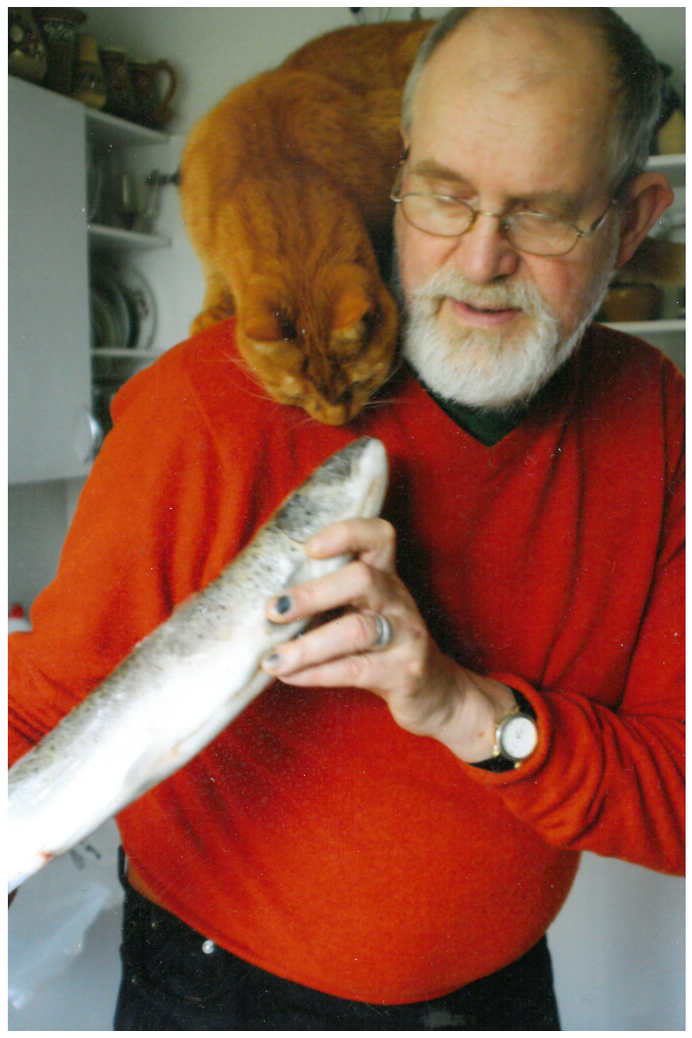 Tõnu Lauk – Estonian metal artist and phalerist.